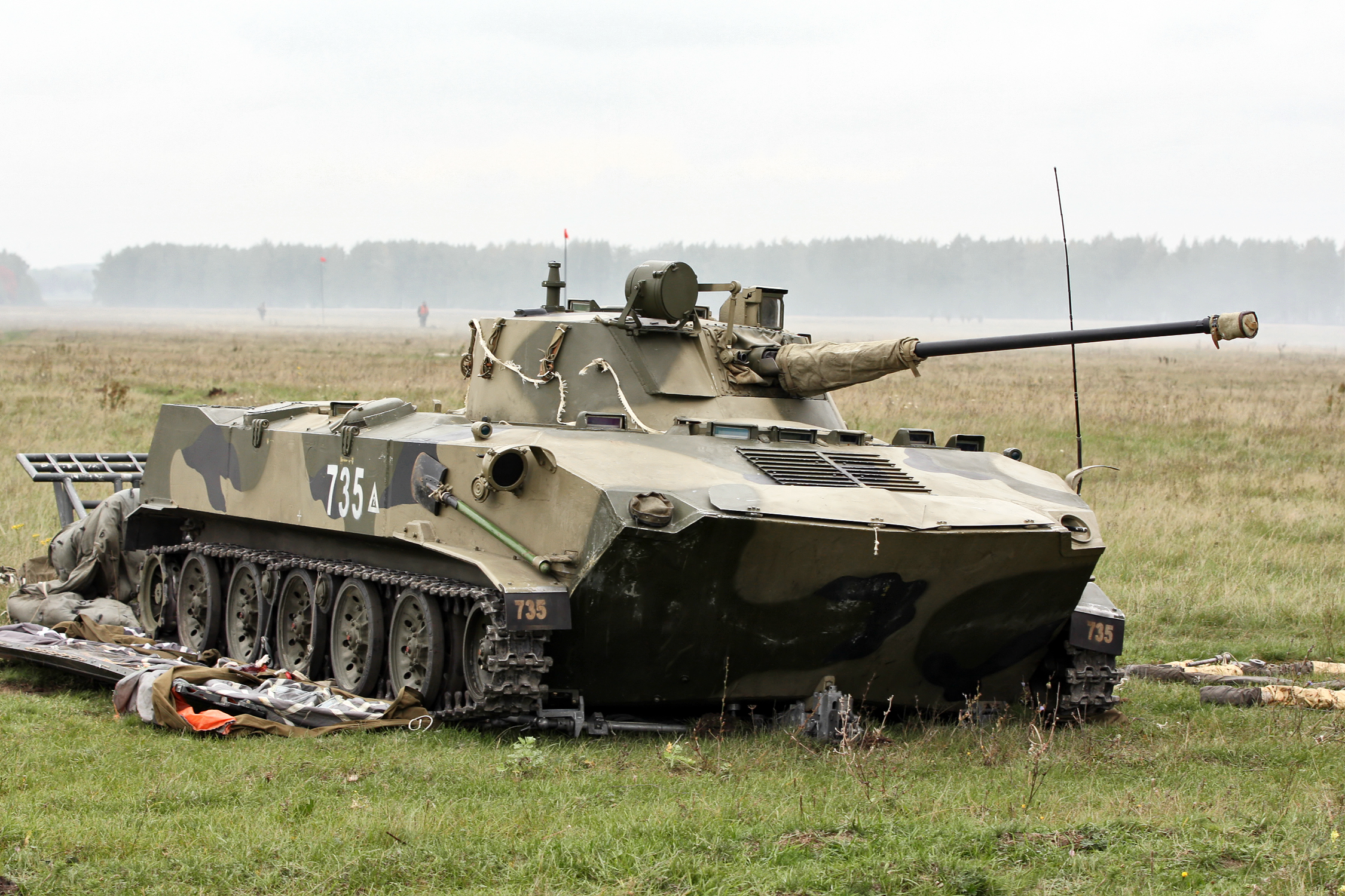 Vehicles were landed with parachute landing system without the platform. After the landing the parts of the system should be detached from the vehicles